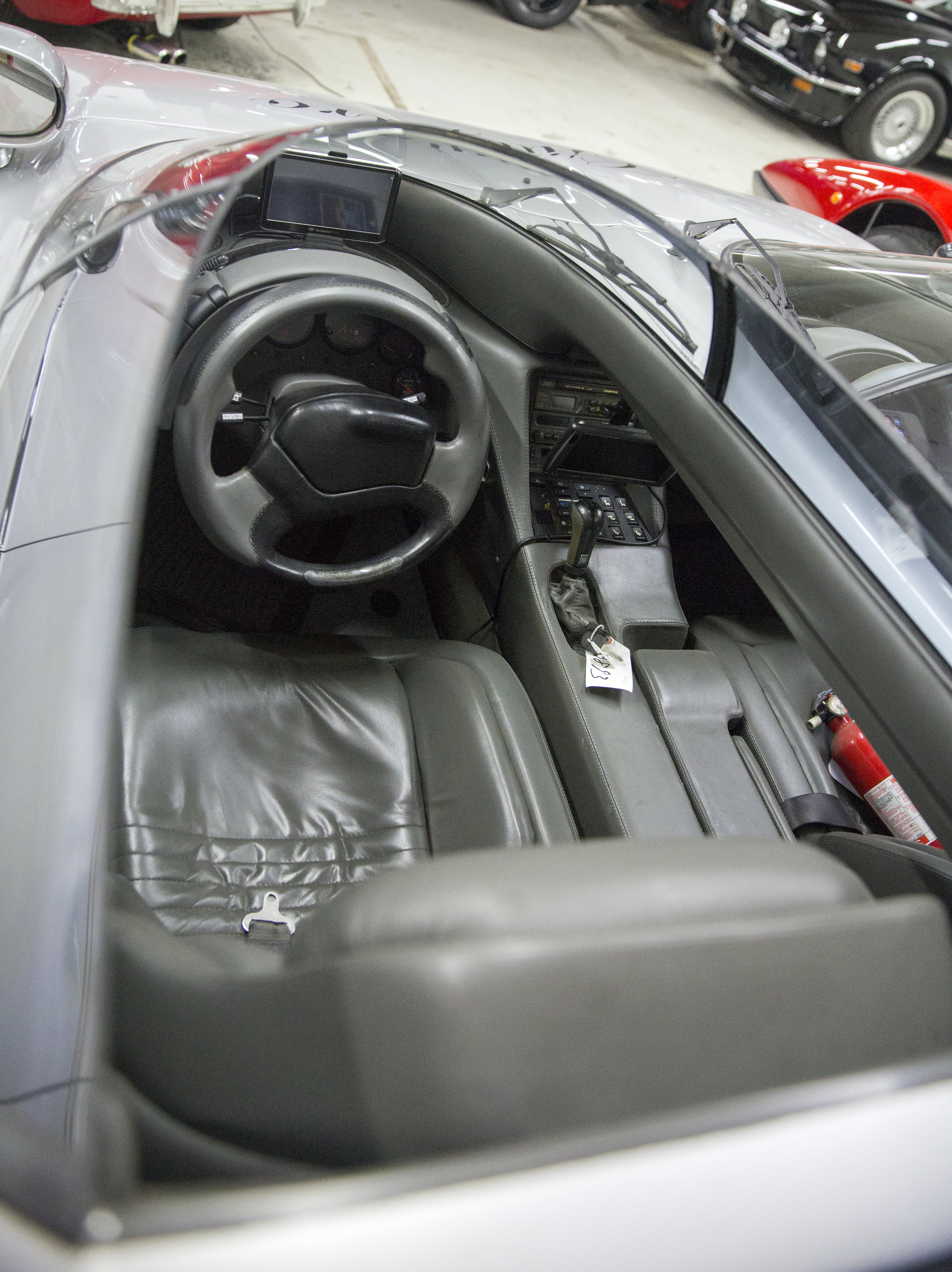 The cockpit of a 1988 Italdesign Aztec at Autosport Designs in Long Island, NY. Chassis #1, with a Japanese collector for many years. Can't believe I got to be even near this amazing vehicle. No price listed, but one of the 15 built was up for sale for $750,000 on eBay five years ago. Not so sure about the giant "Giugiaro" sticker, but I was told it was applied by the man himself so it may just have to stay.